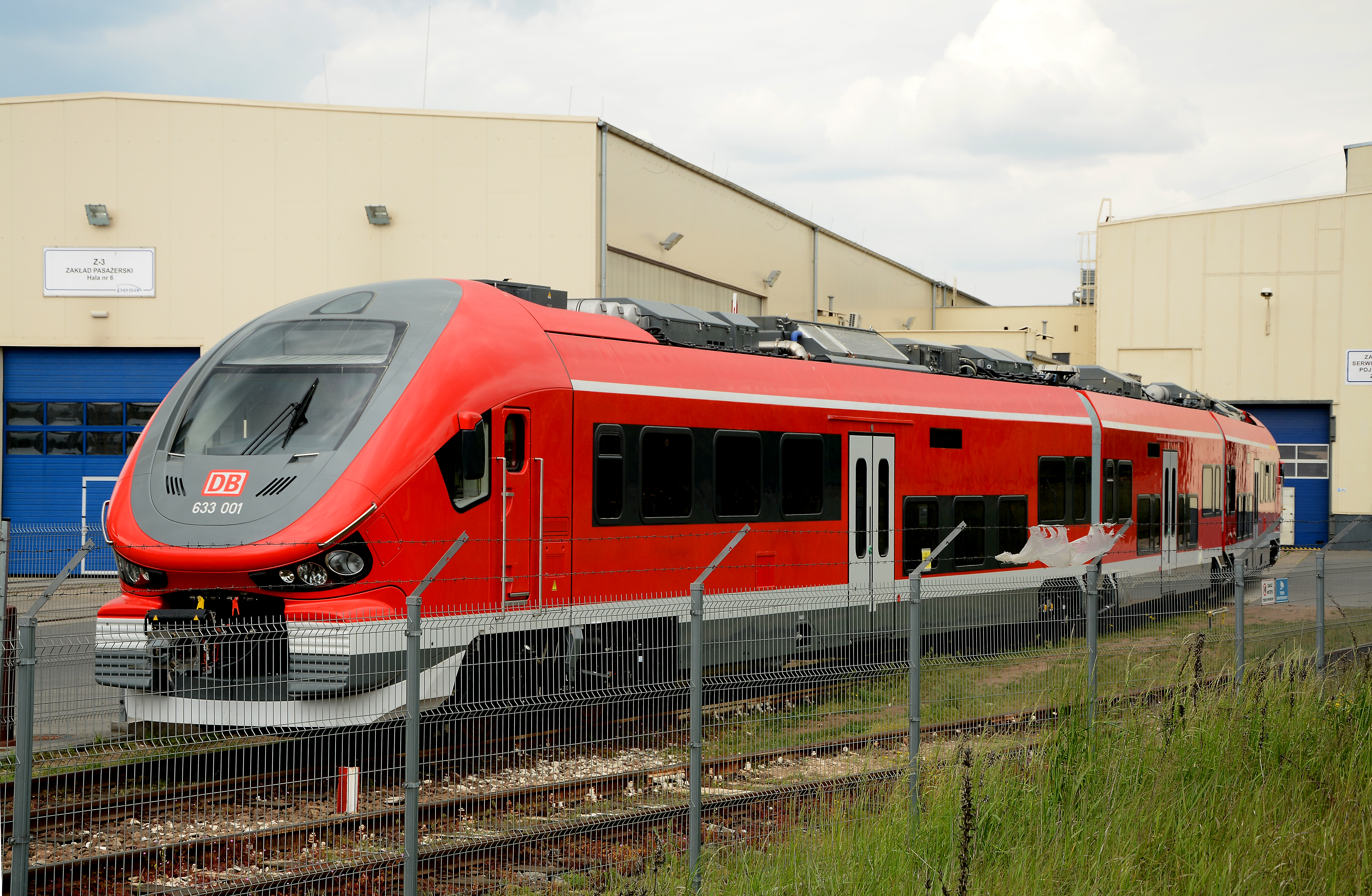 DMU Pesa Link 633 001 for Deutsche Bahn in Bydgoszcz plant